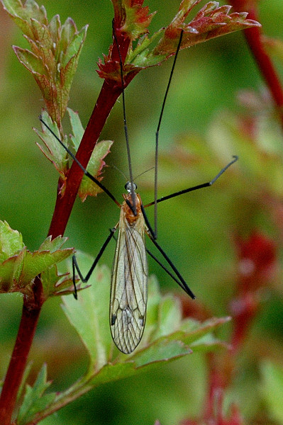 Picture taken in Commanster, Belgian High Ardennes . Species: Austrolimnophila ochracea